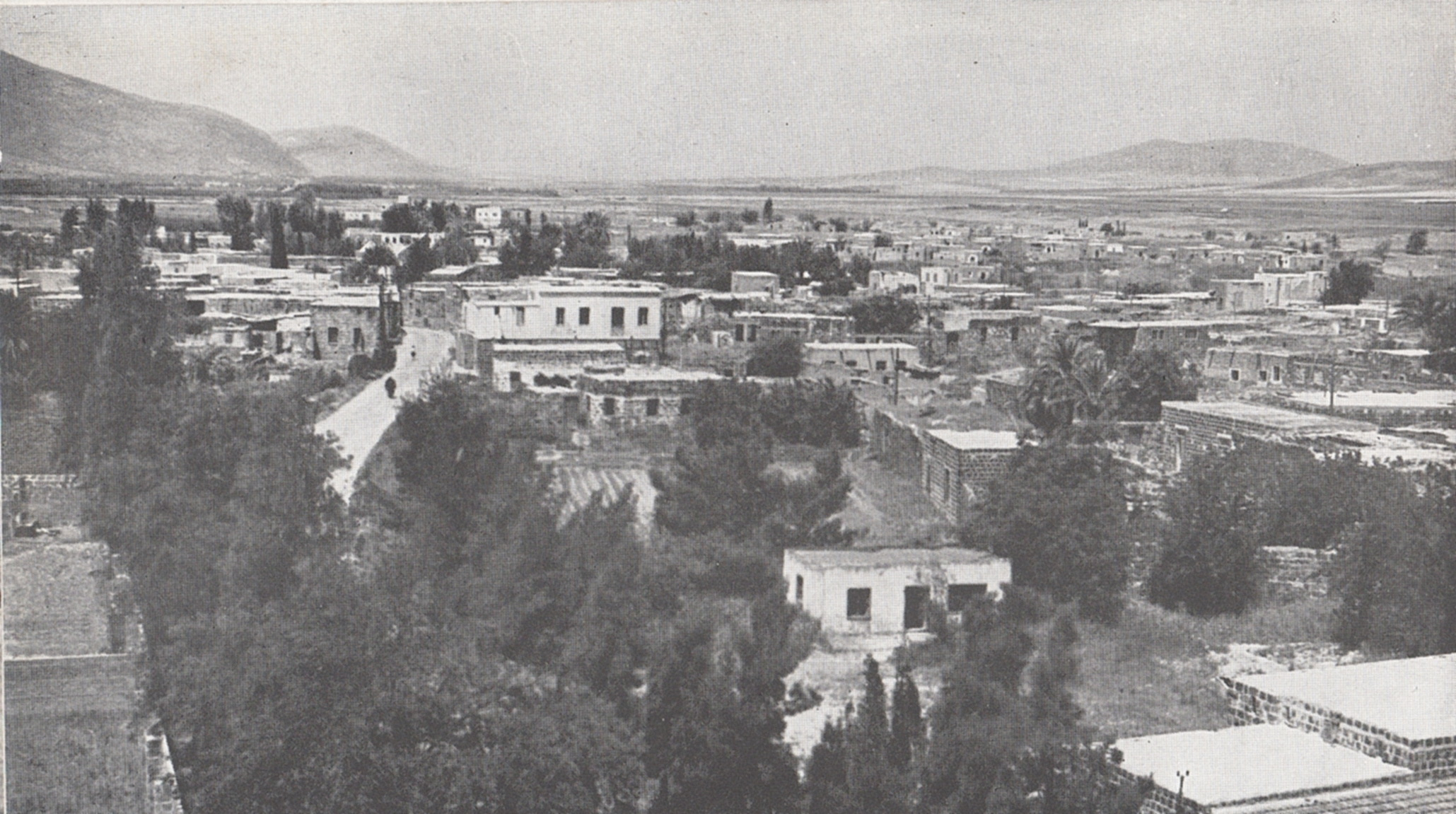 General view Beit She'an, Cities in Israel